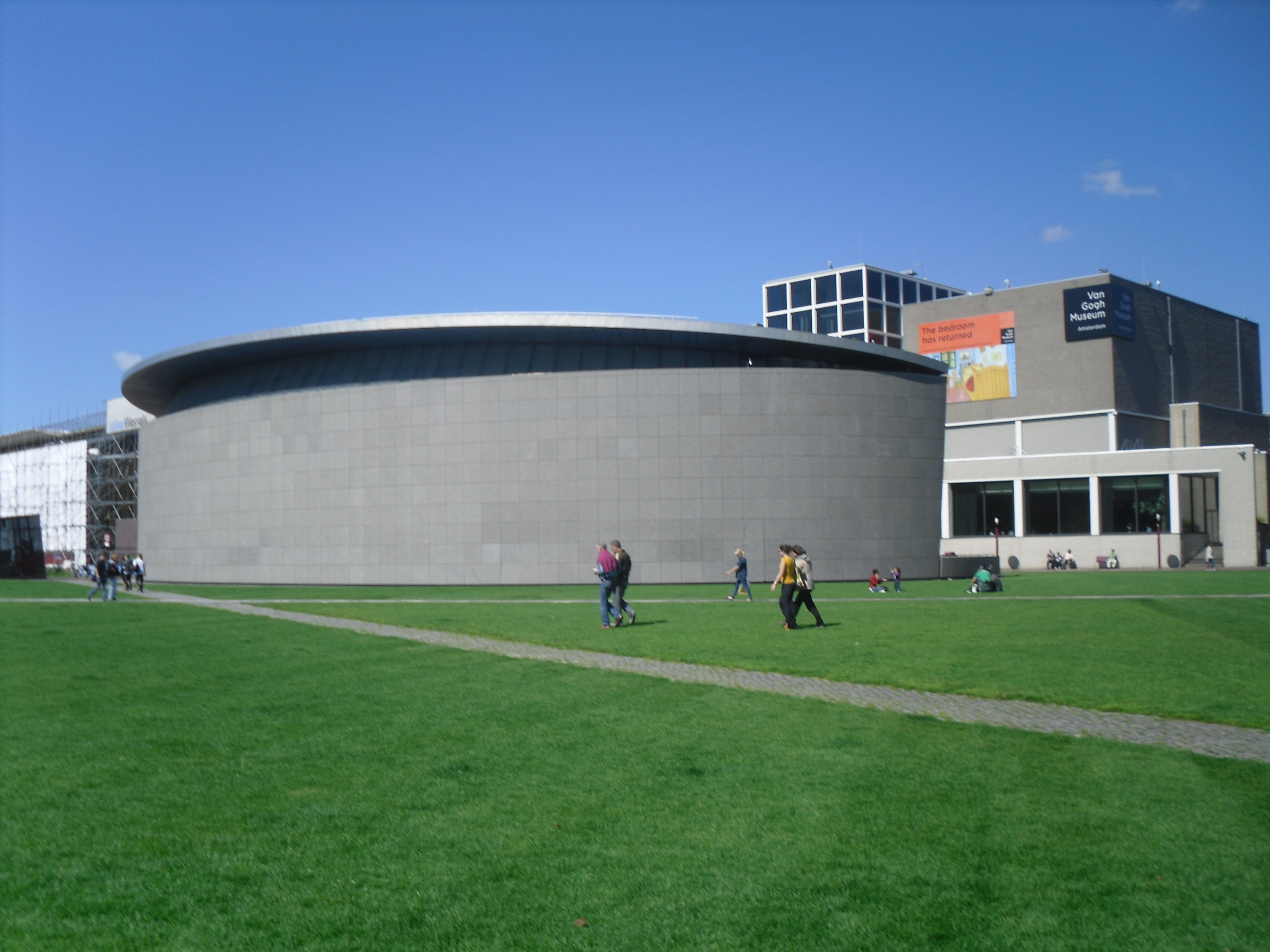 Van Gogh Museum Native nameVan Gogh MuseumLocationAmsterdam, NetherlandsCoordinates52° 21′ 30″ N, 4° 52′ 52″ E Established1973Web page control : Q224124 VIAF: 157780694 ISNI: 0000 0004 0369 348X ULAN: 500275558 LCCN: nr96012202 GND: 1035547-9 WorldCat institution QS:P195,Q224124 The back of the "Van Gogh Museum" in Amsterdam, from the Museumplein